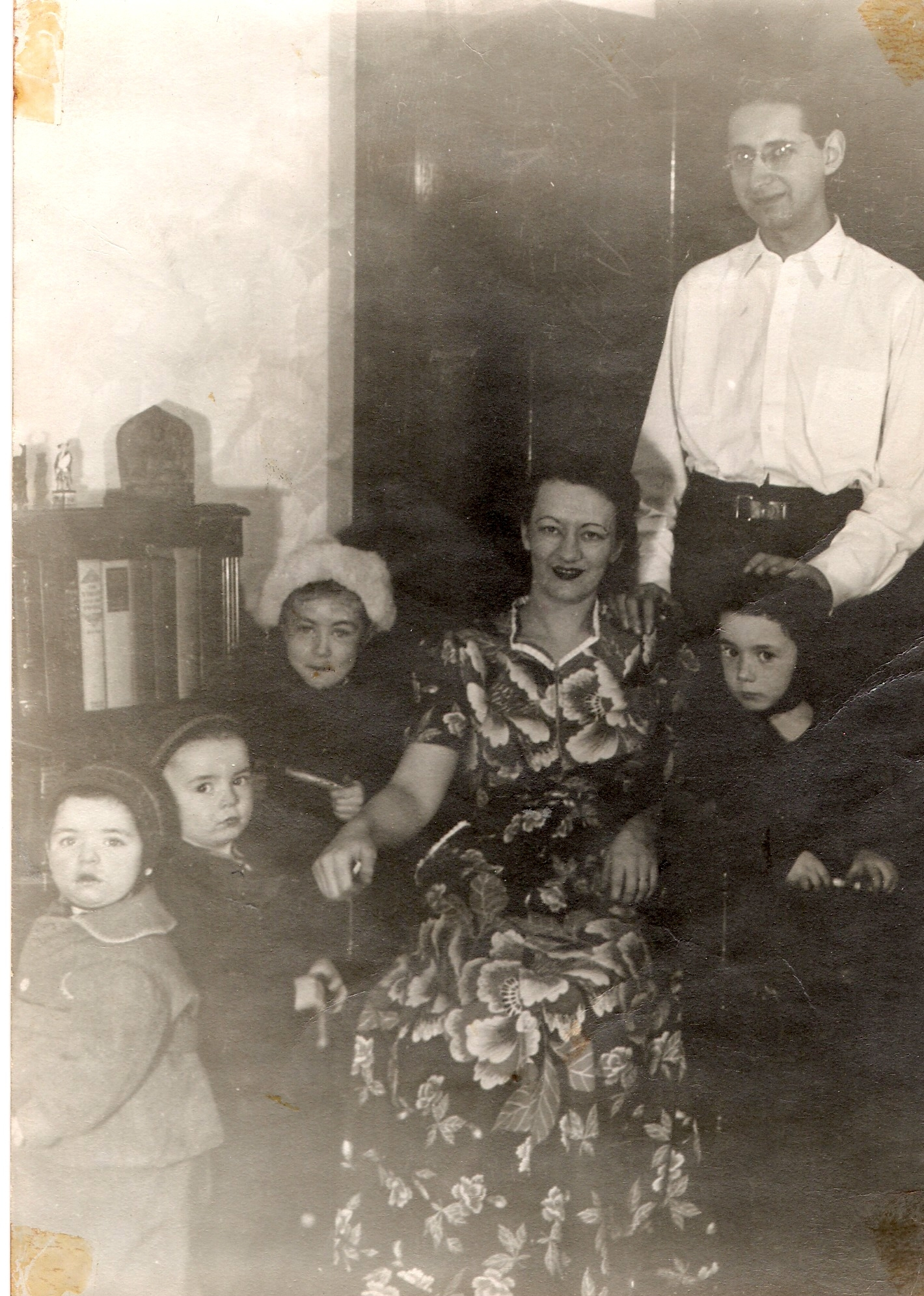 My Great Uncle Robert Bloch with My Aunt Marion. One of the Children pictured is my Father Frank Thomas Corrao.